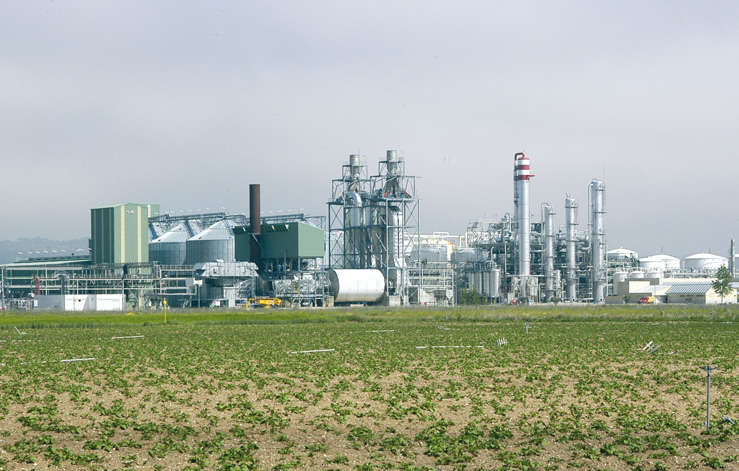 Ethanol plant in Babilafuente (Salamanca), 12th may 2008.